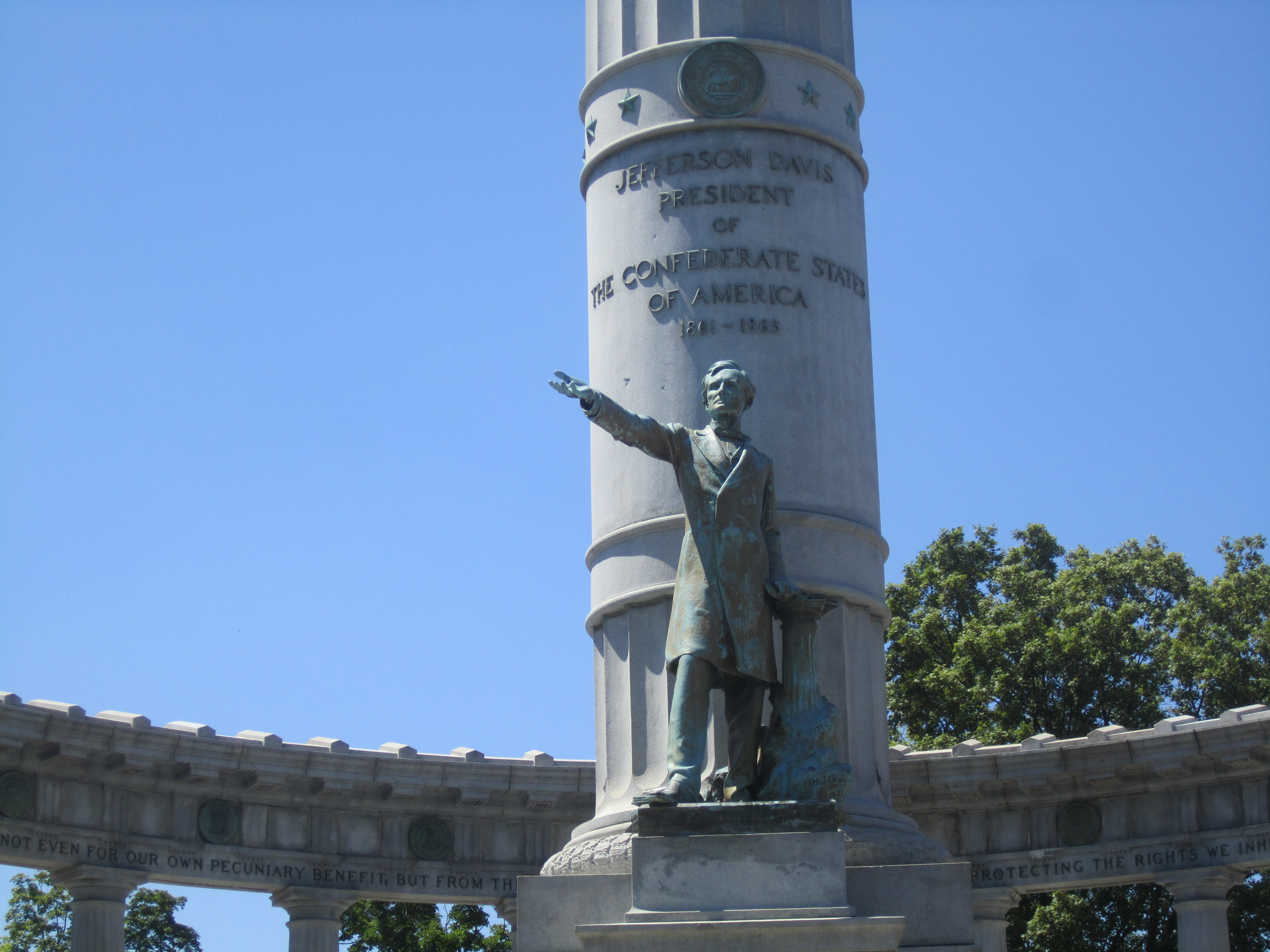 I took photo with Canon camera in Richmond, VA, of Jefferson Davis Monument on Monument Avenue. Pre-1923